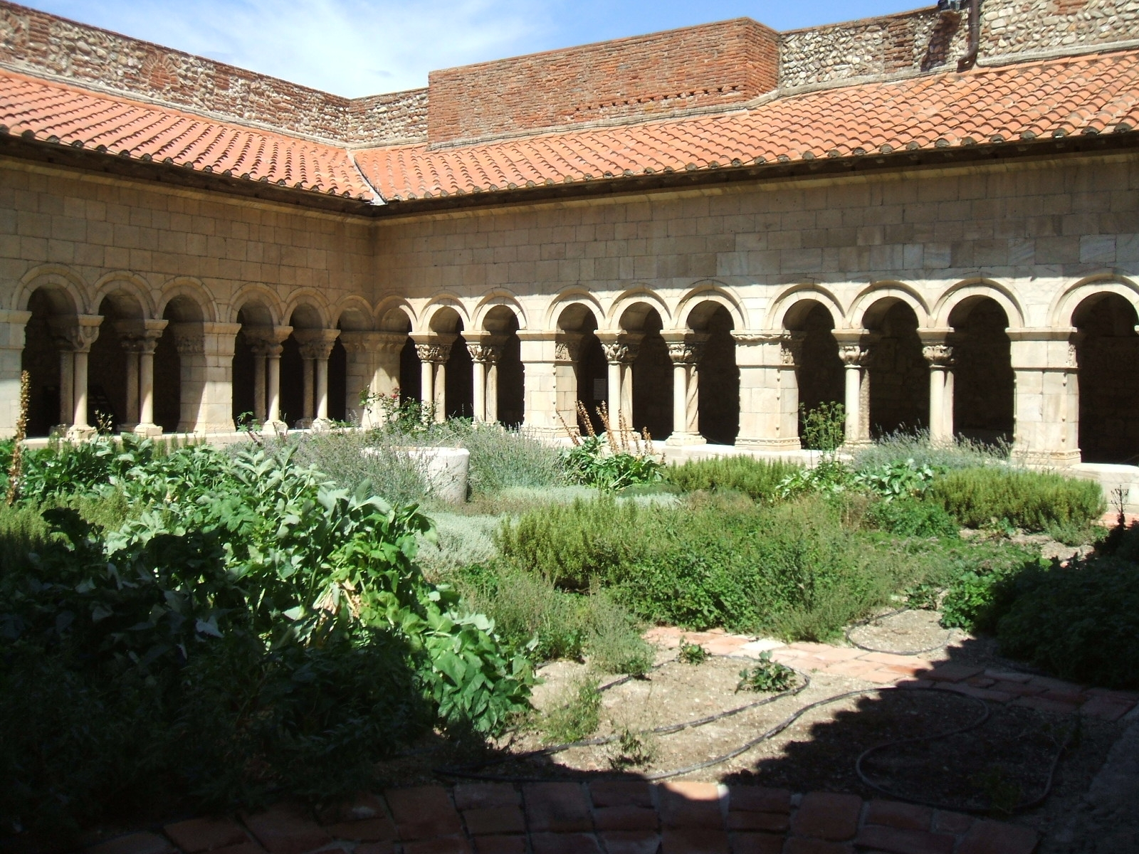 Elne cloister (XIIth to XIVth century) : Notheastern corner